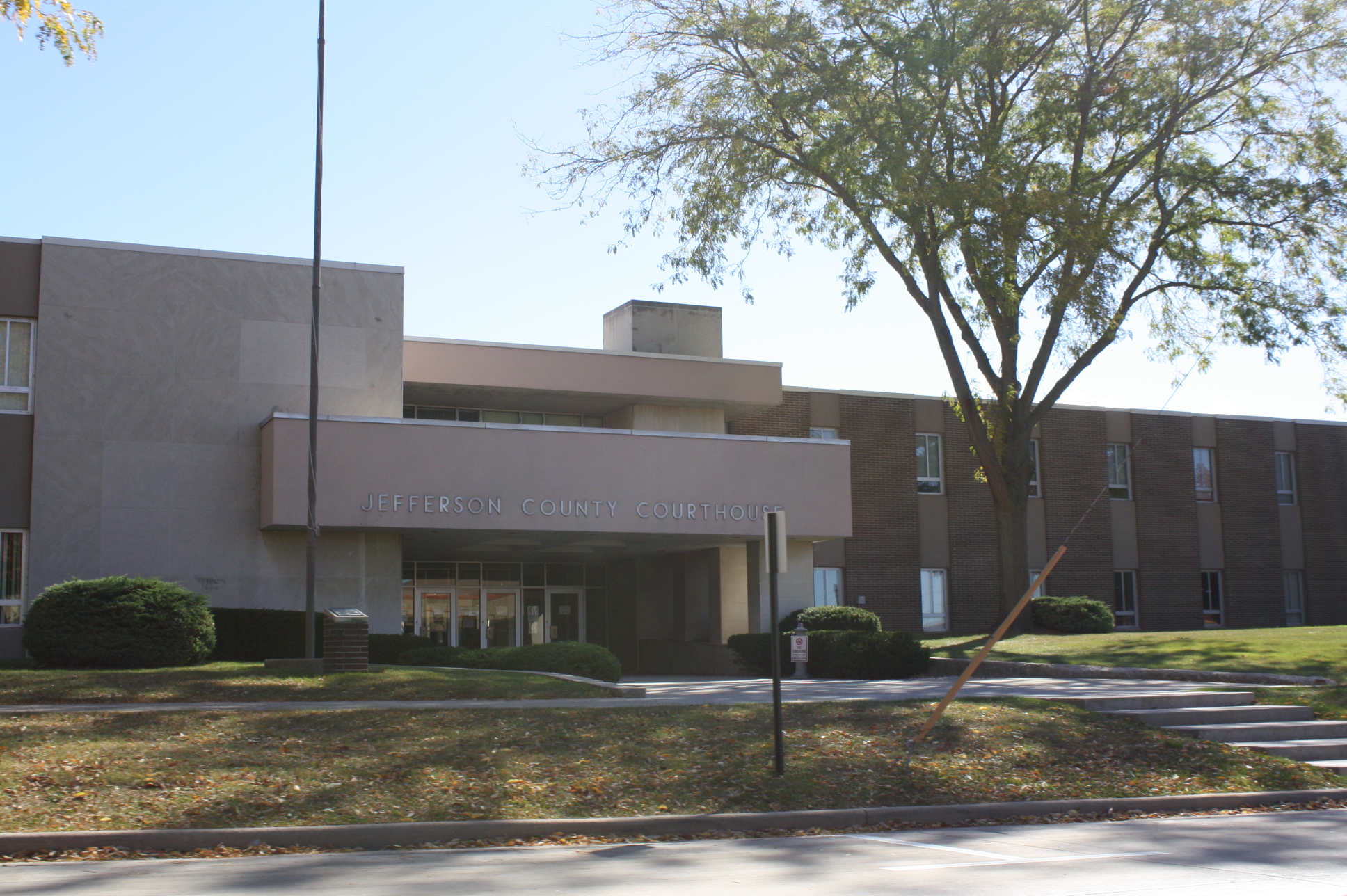 The Jefferson County, Wisconsin courthouse along Wisconsin Highway 26.